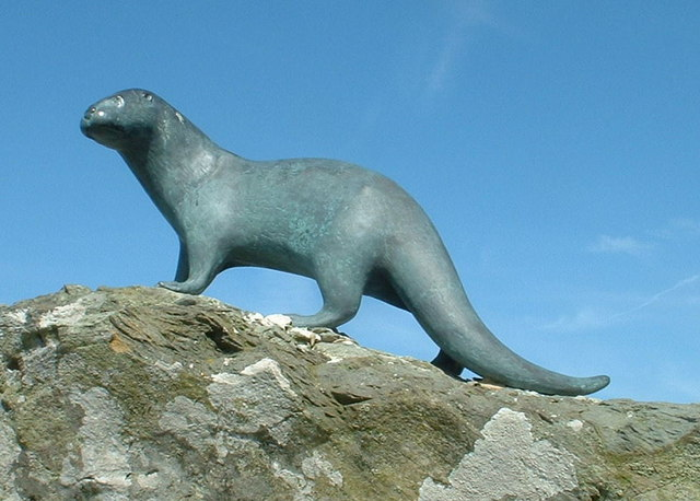 The Otter. A close up of Maxwell's memorial. It's a beautiful bronze statue and, predictably, has a shiny head through the affectionate pats of the people who come to see it. The statue features on the front cover of the current 1:25,000 map of the area.